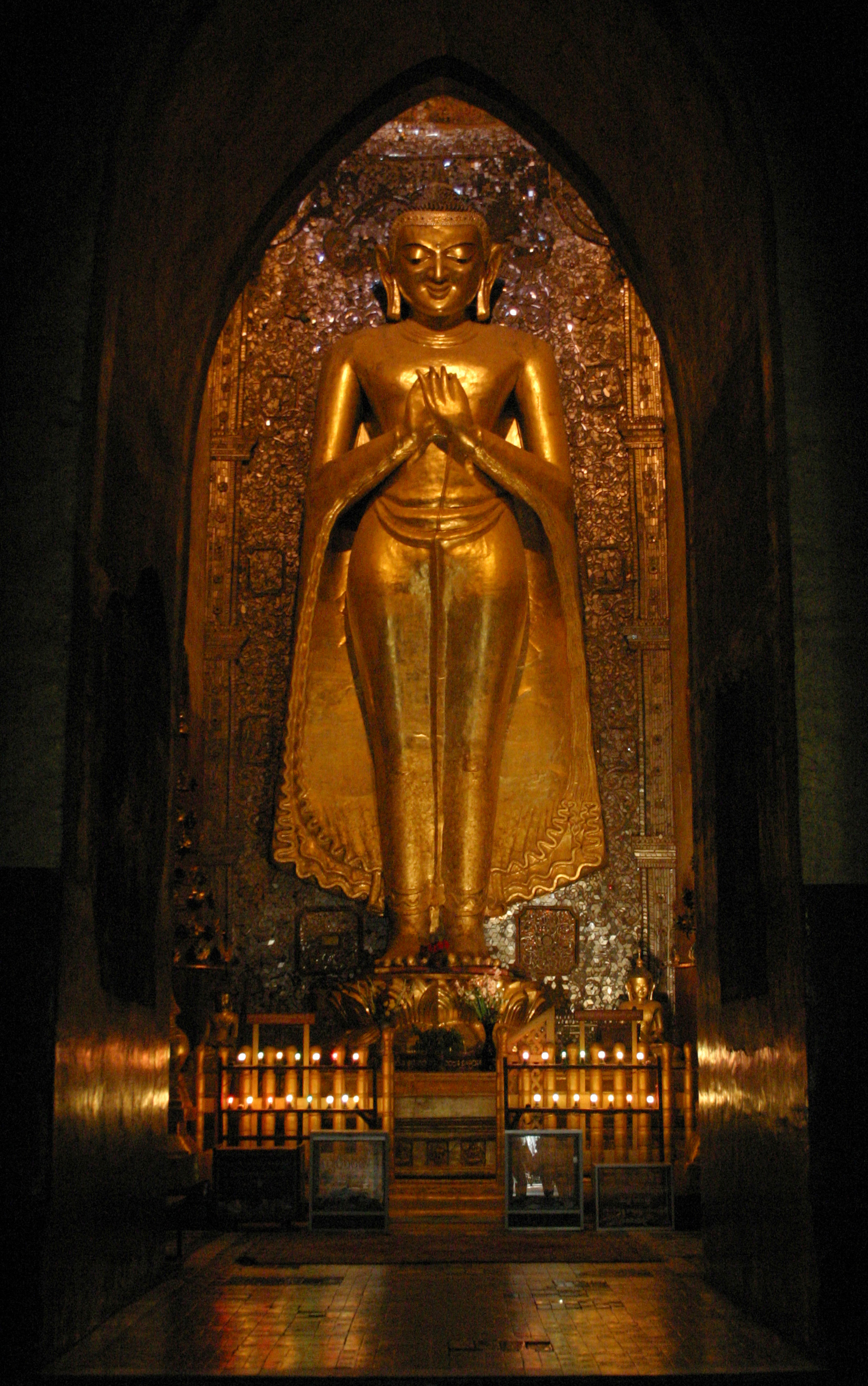 Ananda temple in Bagan, Myanmar.